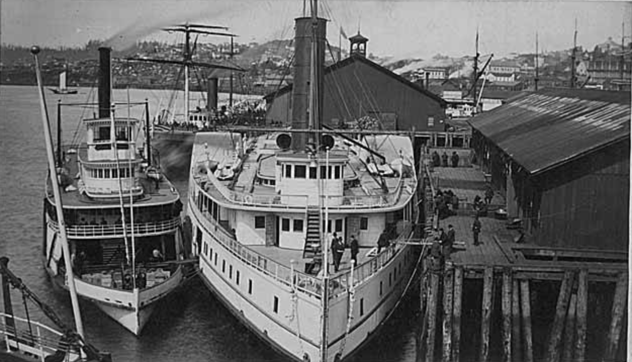 The steamers Emma Hayward (L) and Olympian (R) at Seattle, circa 1890. The steamer Mexico appears in the rear.